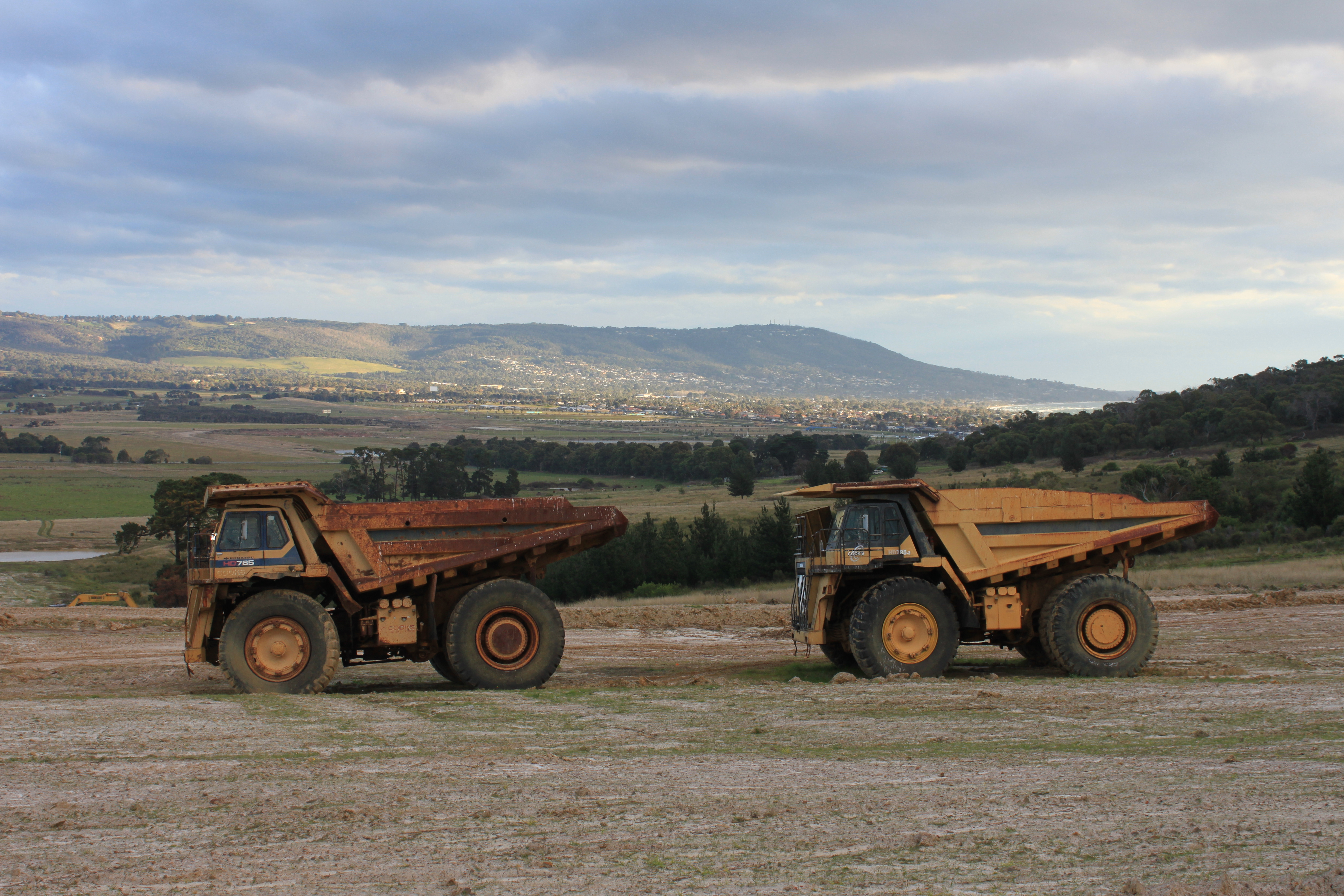 Two Komatsu haul trucks in Australia. Good Design Award 1996.